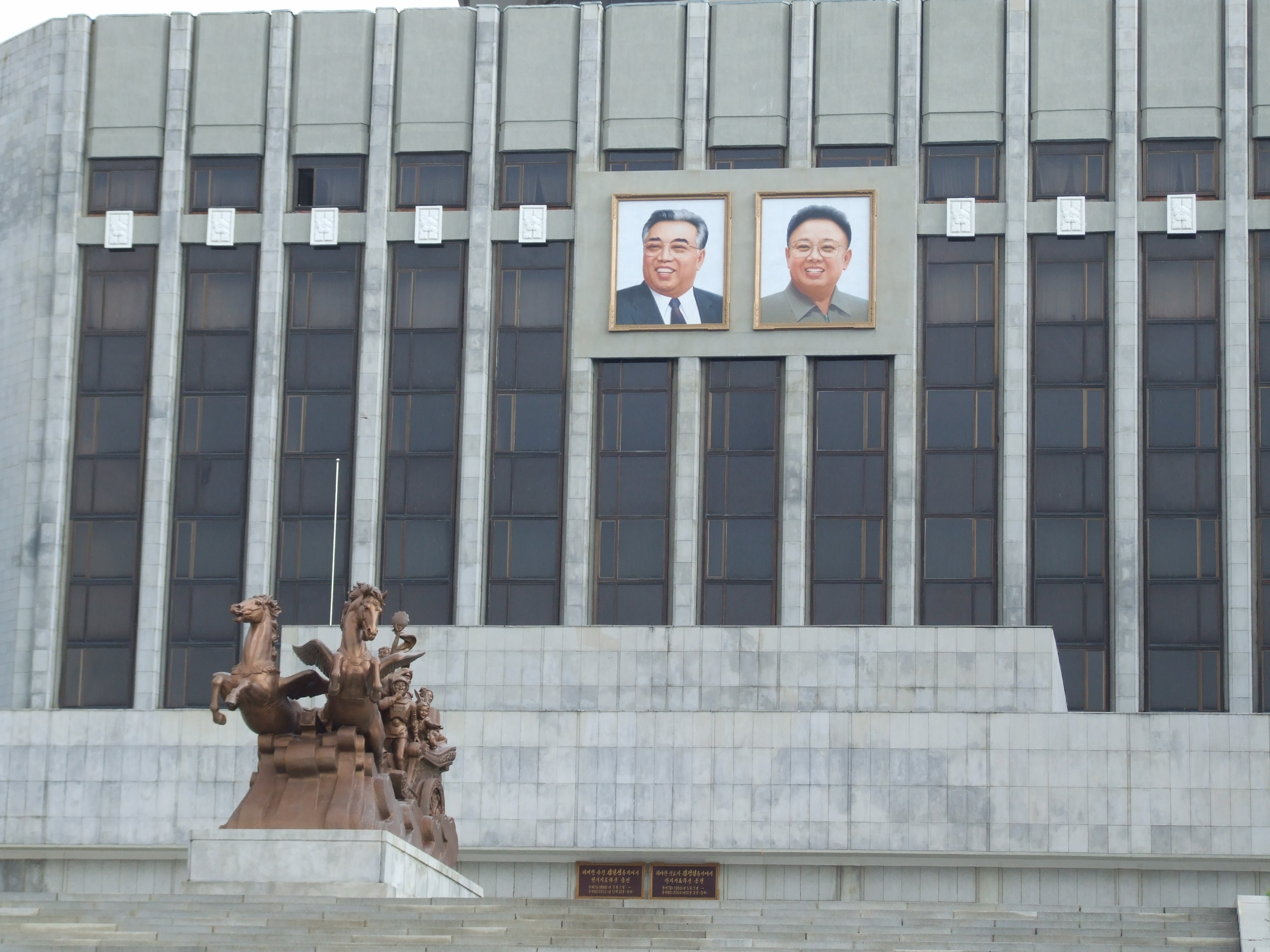 Mangyongdae Children's Palace